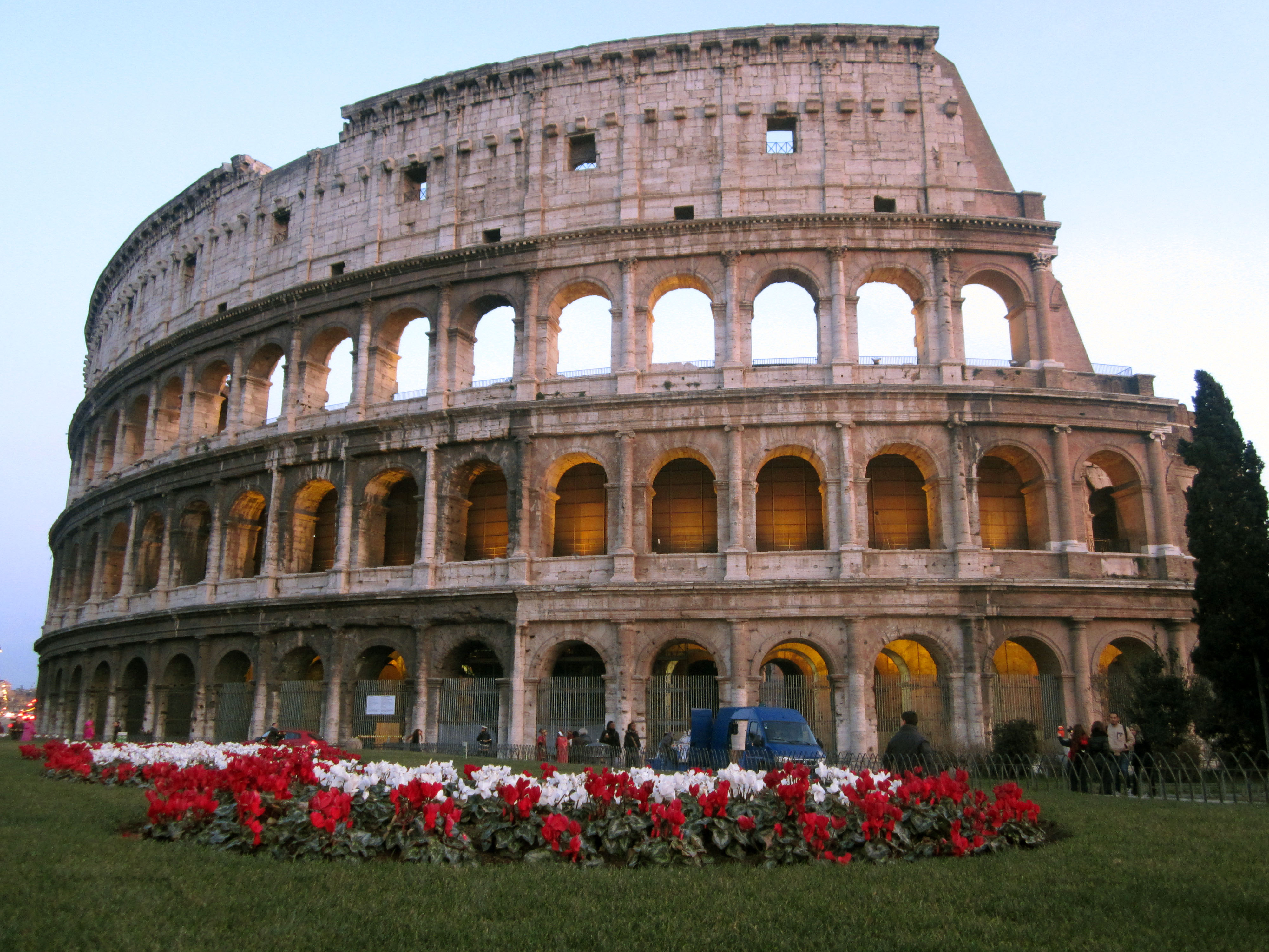 Colosseum in Rome, Italy - 30.01.2012